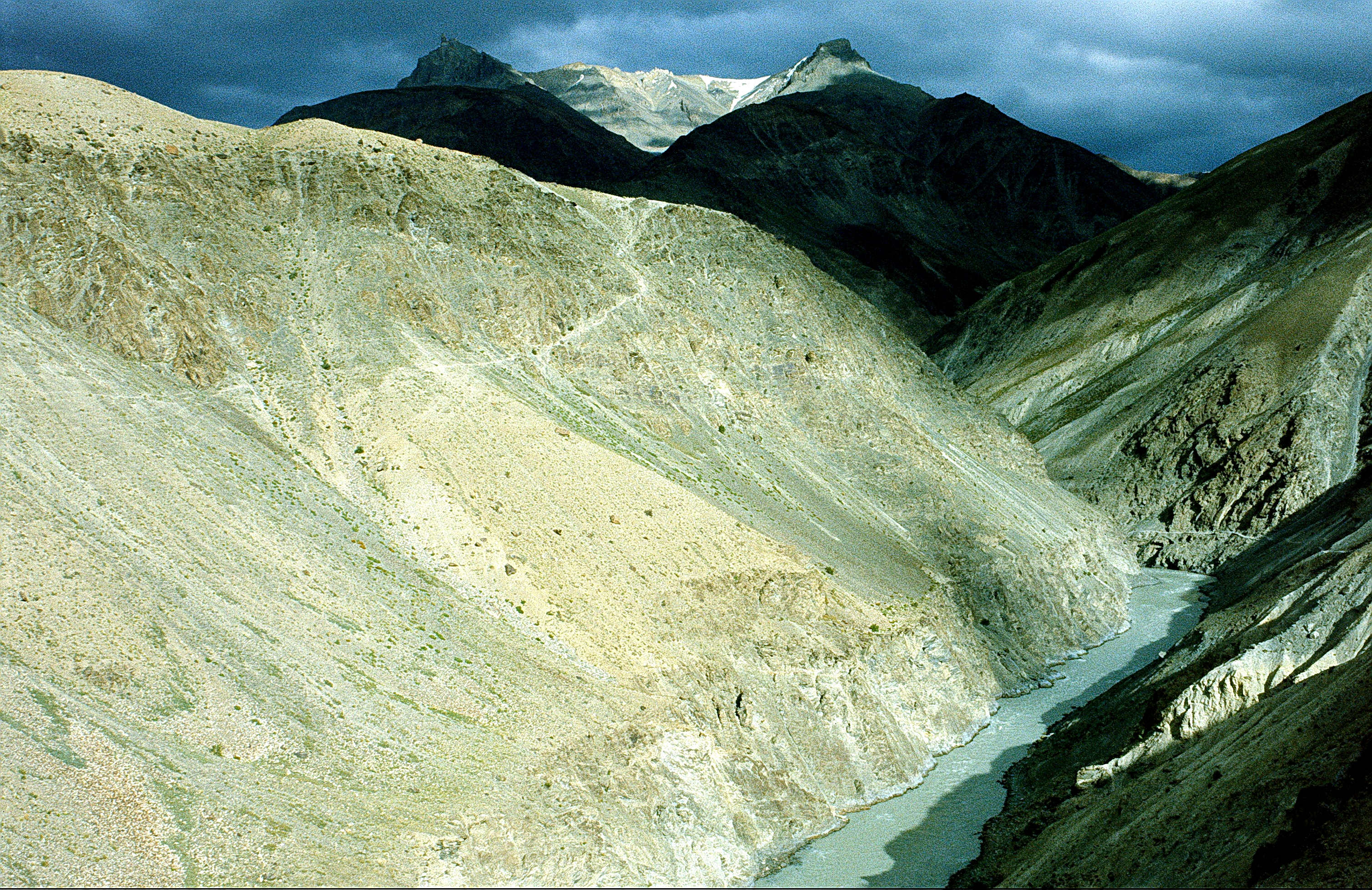 Going to Char, along the Tsarap river.